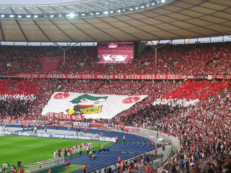 Fans of the 1. FC Nürnberg in the final of the DFB-Pokal 2007 in the Olympiastadion Berlin between the VfB Stuttgart and the 1. FC Nürnberg 2:3 a.e.t. (1:1, 2:2)